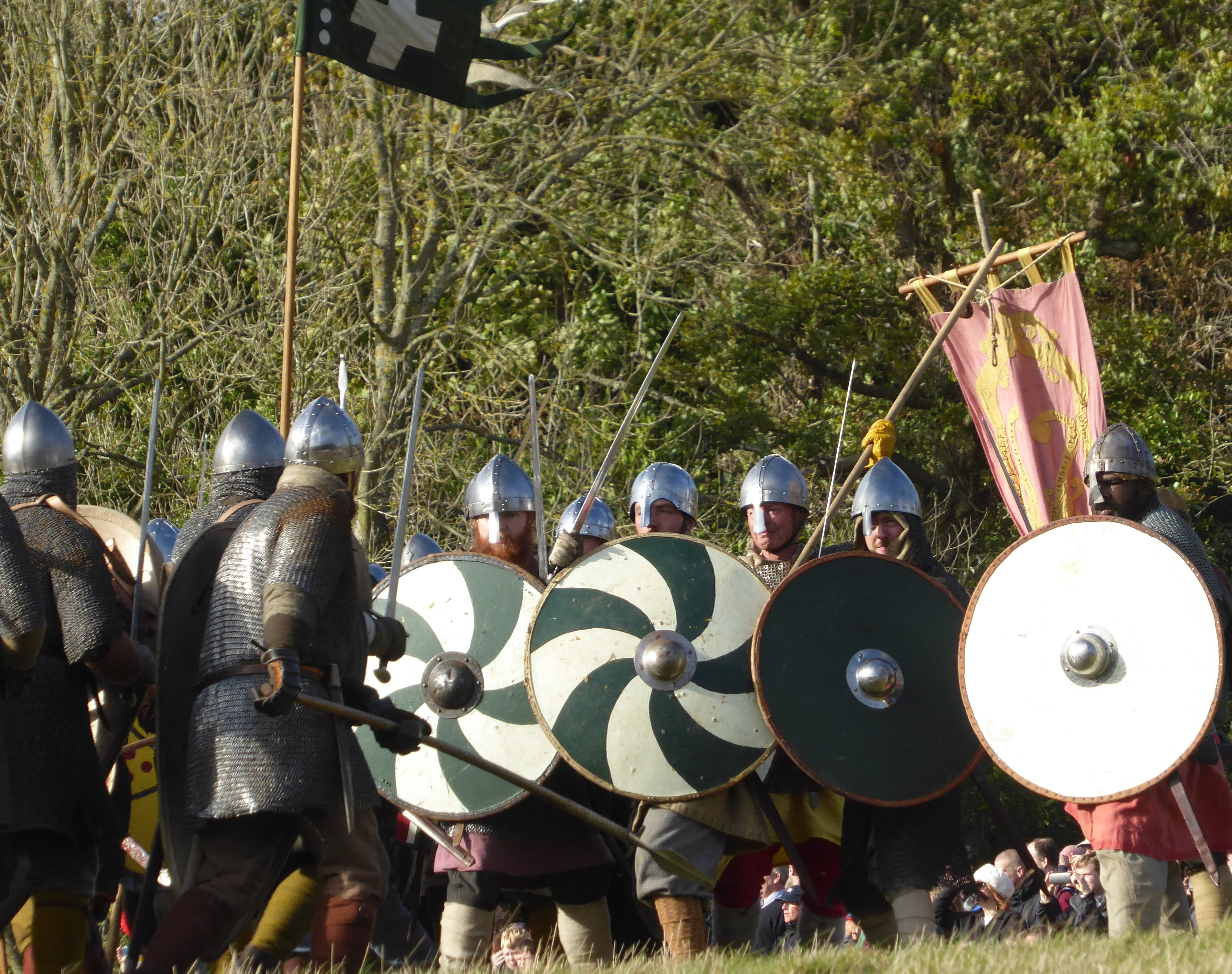 Regia Anglorum at the 2016 Battle of Hastings Reenactment event.